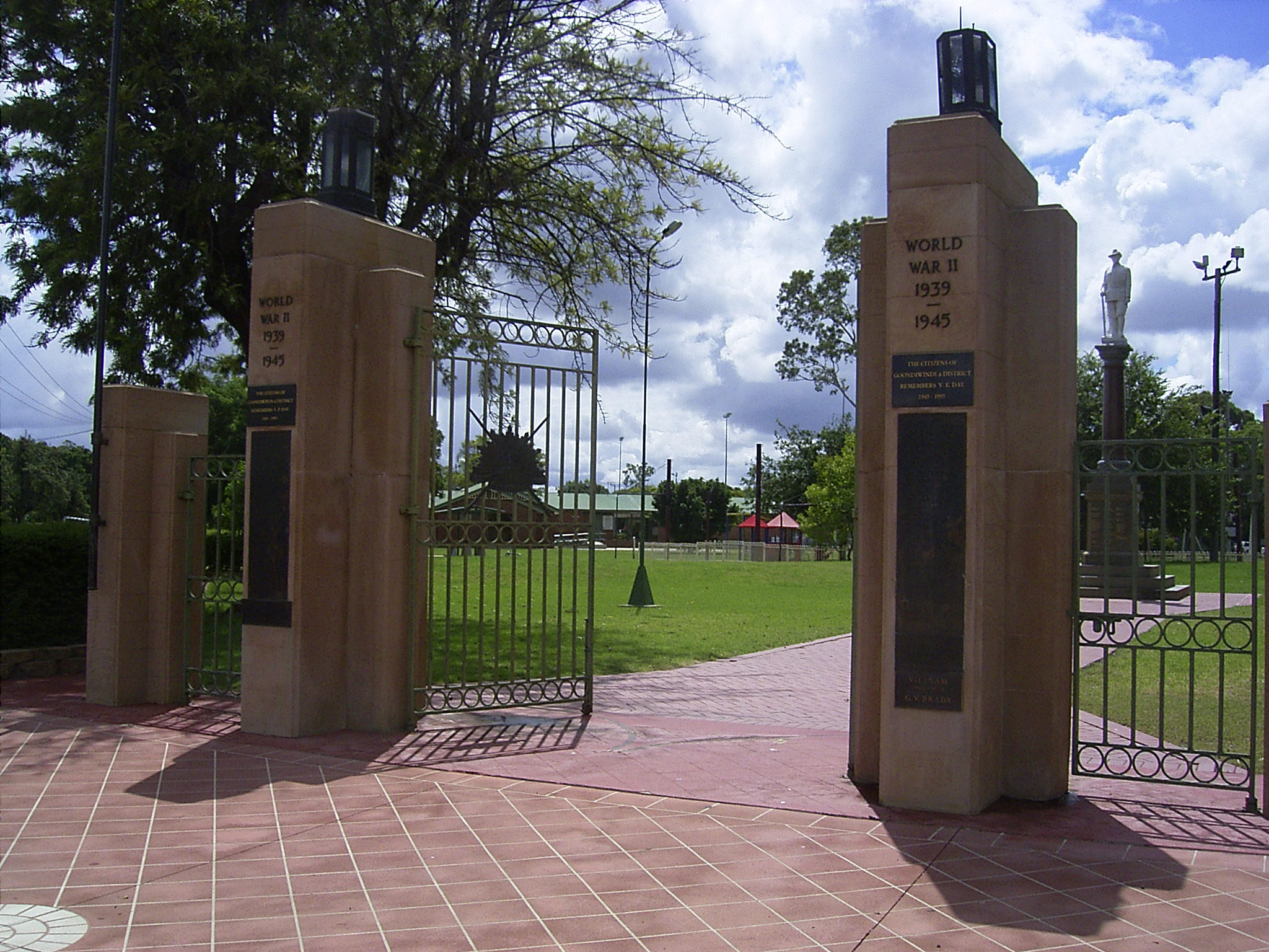 Gates to the War Memorial Park in the town of Goondiwindi, Queensland.